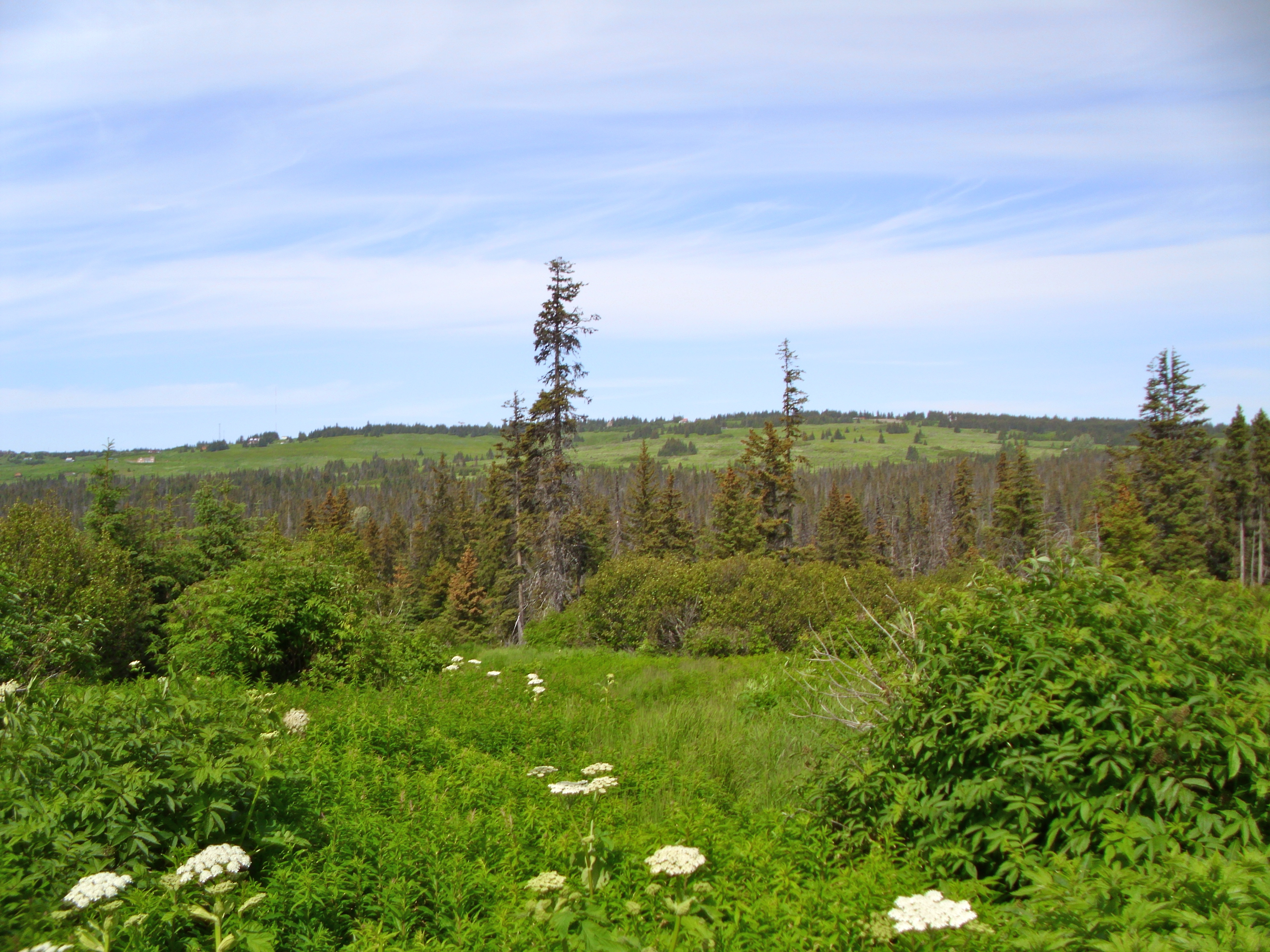 view of Diamond Ridge, Alaska from Roger's Loop Road on the edge of Homer, Alaska